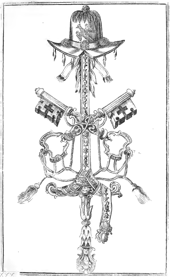 Blessed sword and hat of Manuel Pinto with papal keys